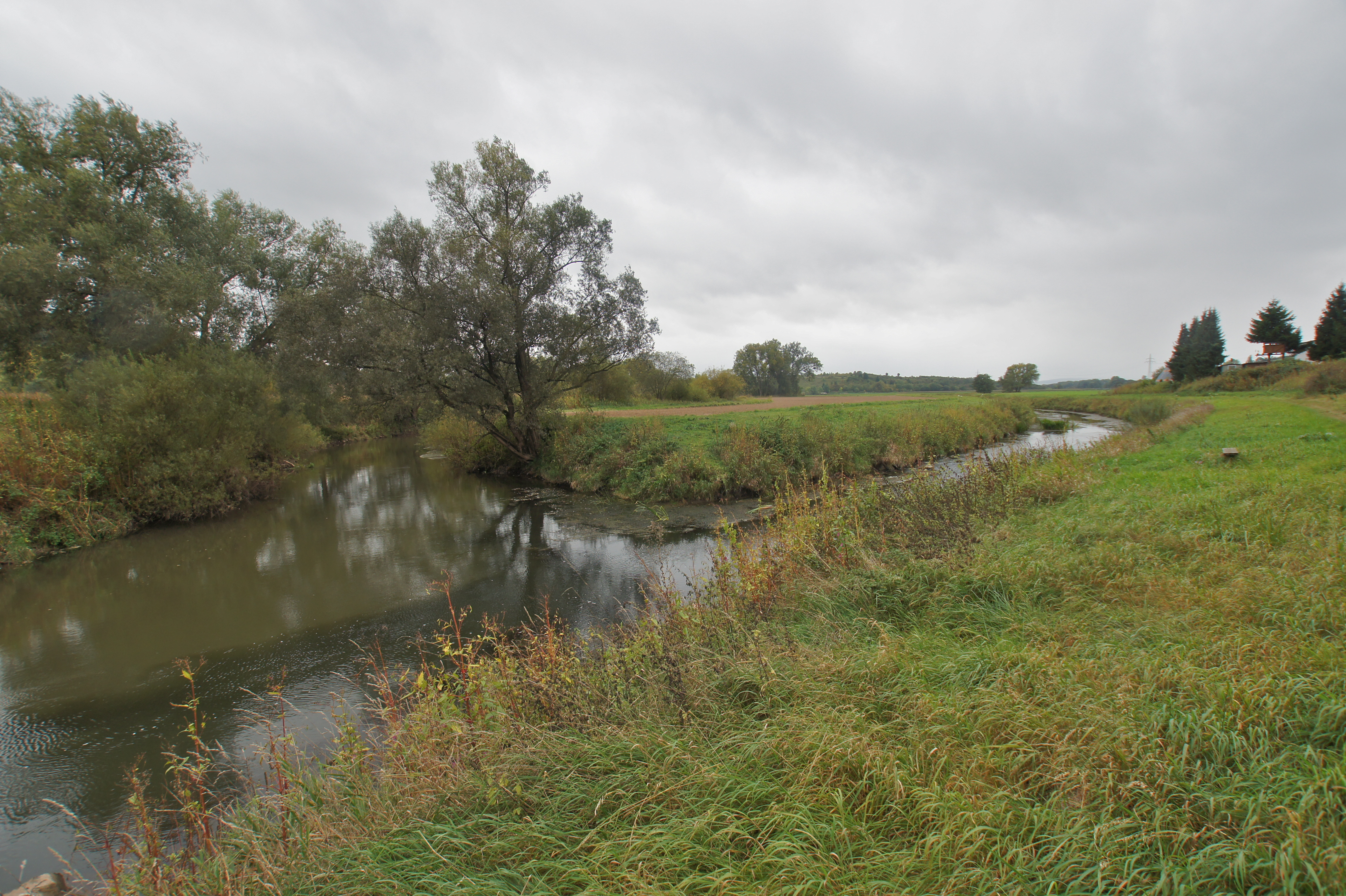 Einbeck, Germany: The river Ilme (right) joinst the Leine